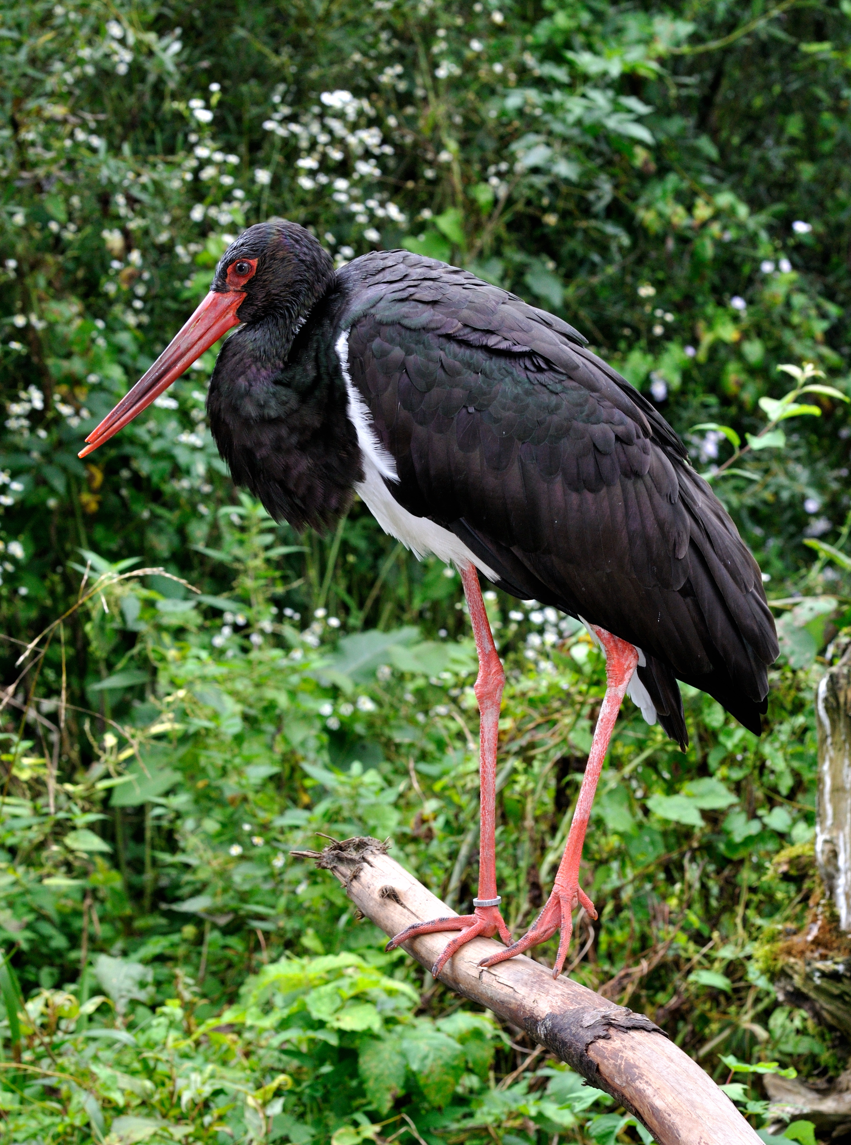 Black Stork (Ciconia nigra) in the Tierpark Hellabrunn, Munich, Germany.